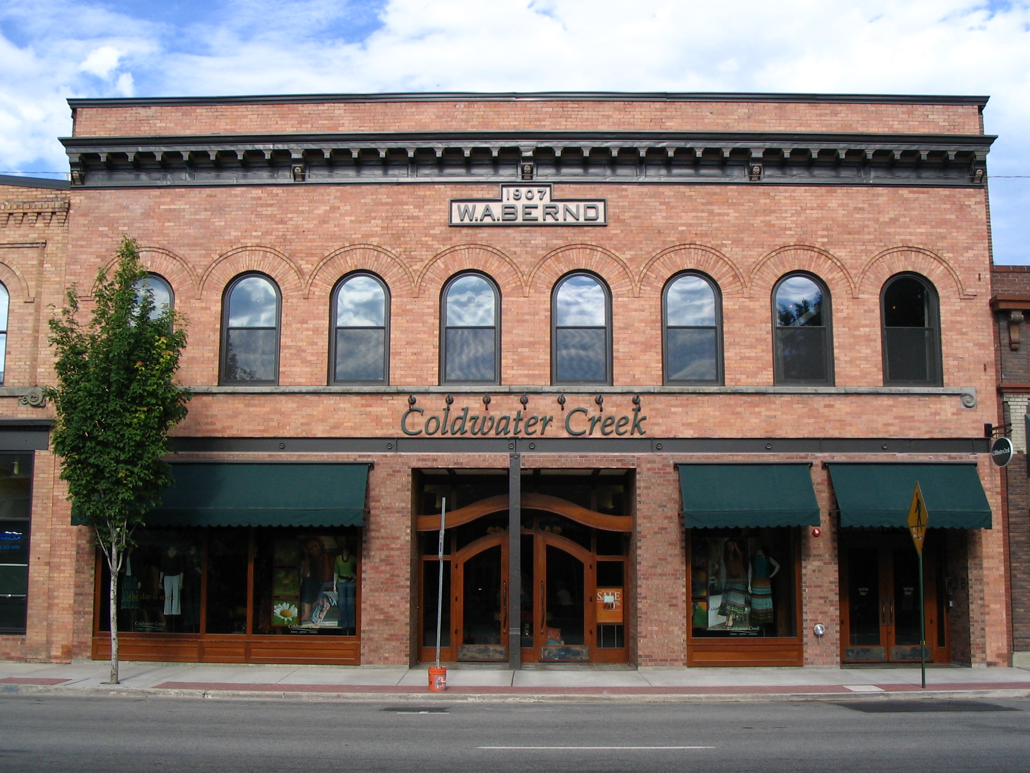 Bernd Building, Sandpoint, Idaho. This building is listed on the National Register of Historic Places.